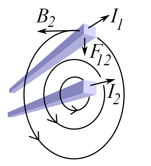 Modified version of File:MagneticWireAttraction.svg